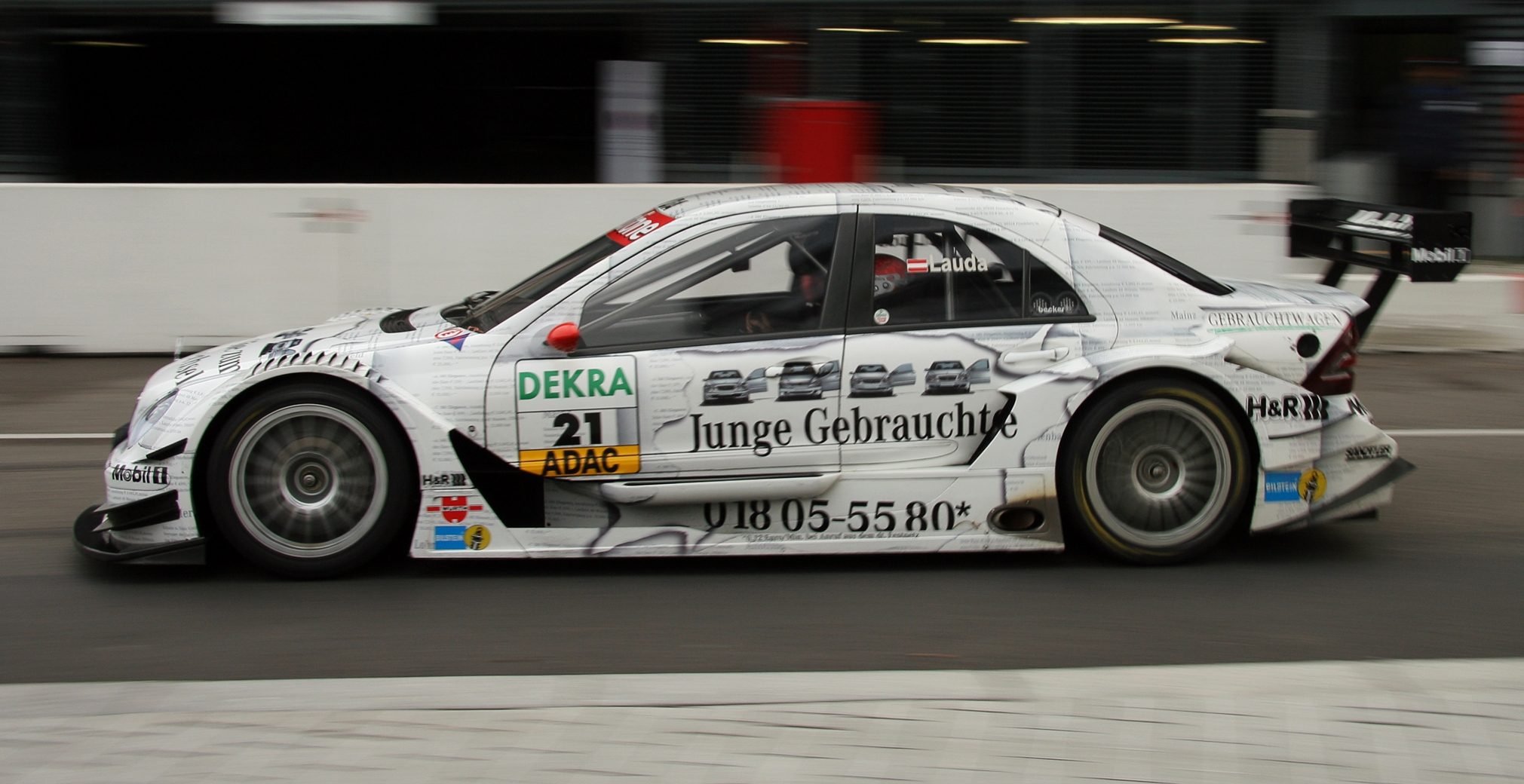 DTM car Mercedes-Benz AMG (C-Class, W203), Mathias Lauda (driver)